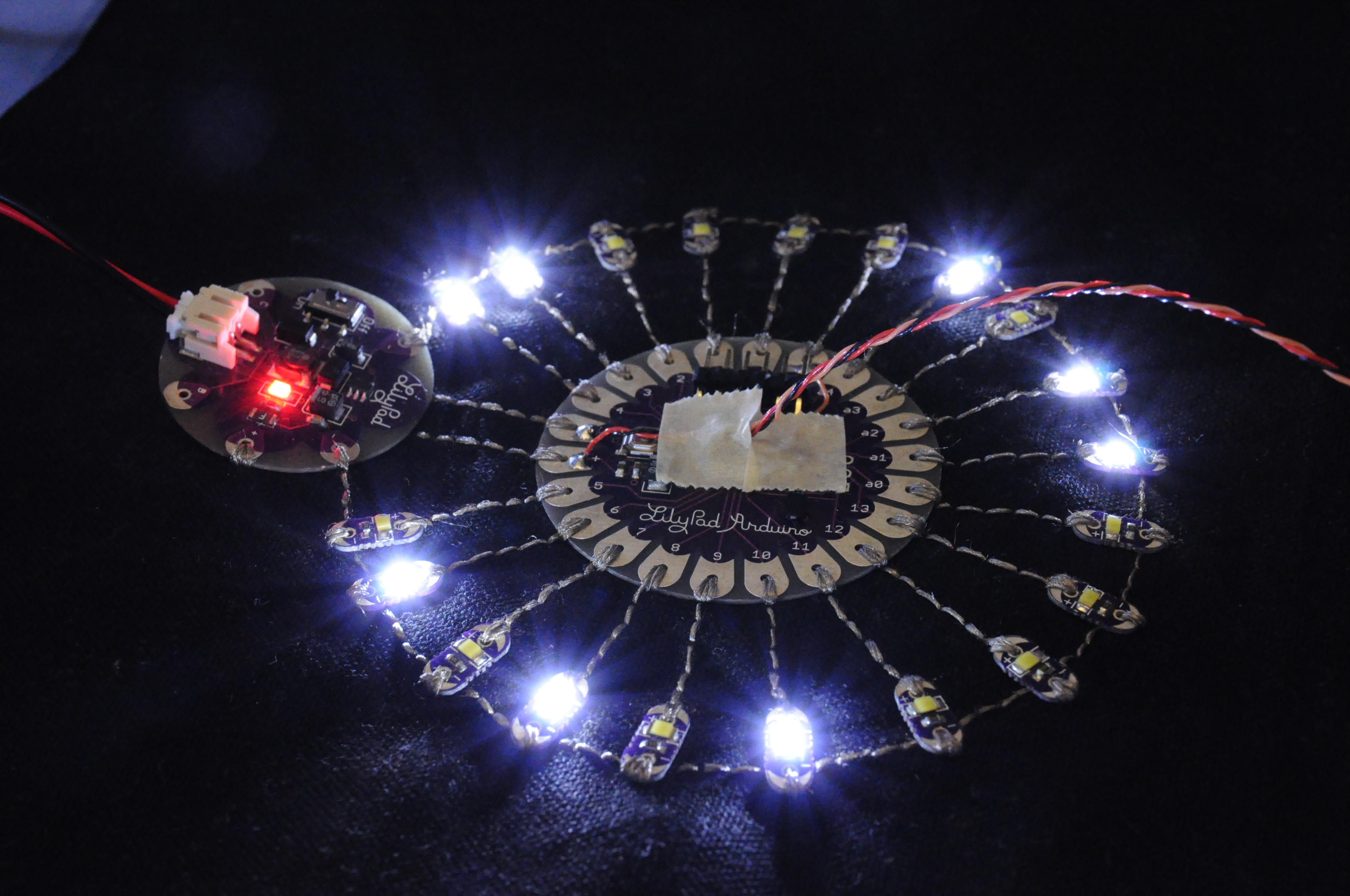 A flexible Lilypad Arduino sewn in textiles with 20 LEDs which fade in and out at random.